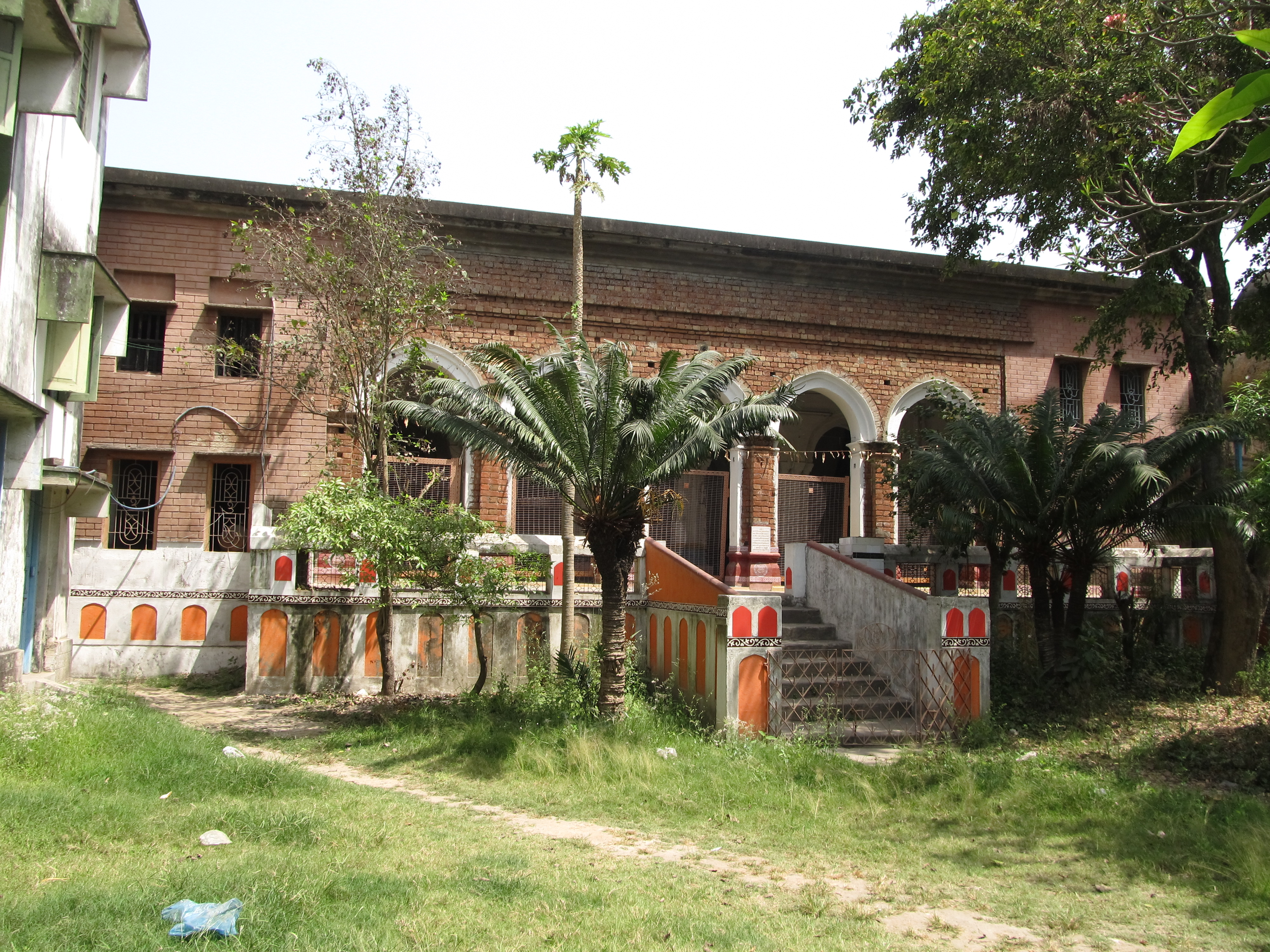 Photographed at Andul, Howrah.